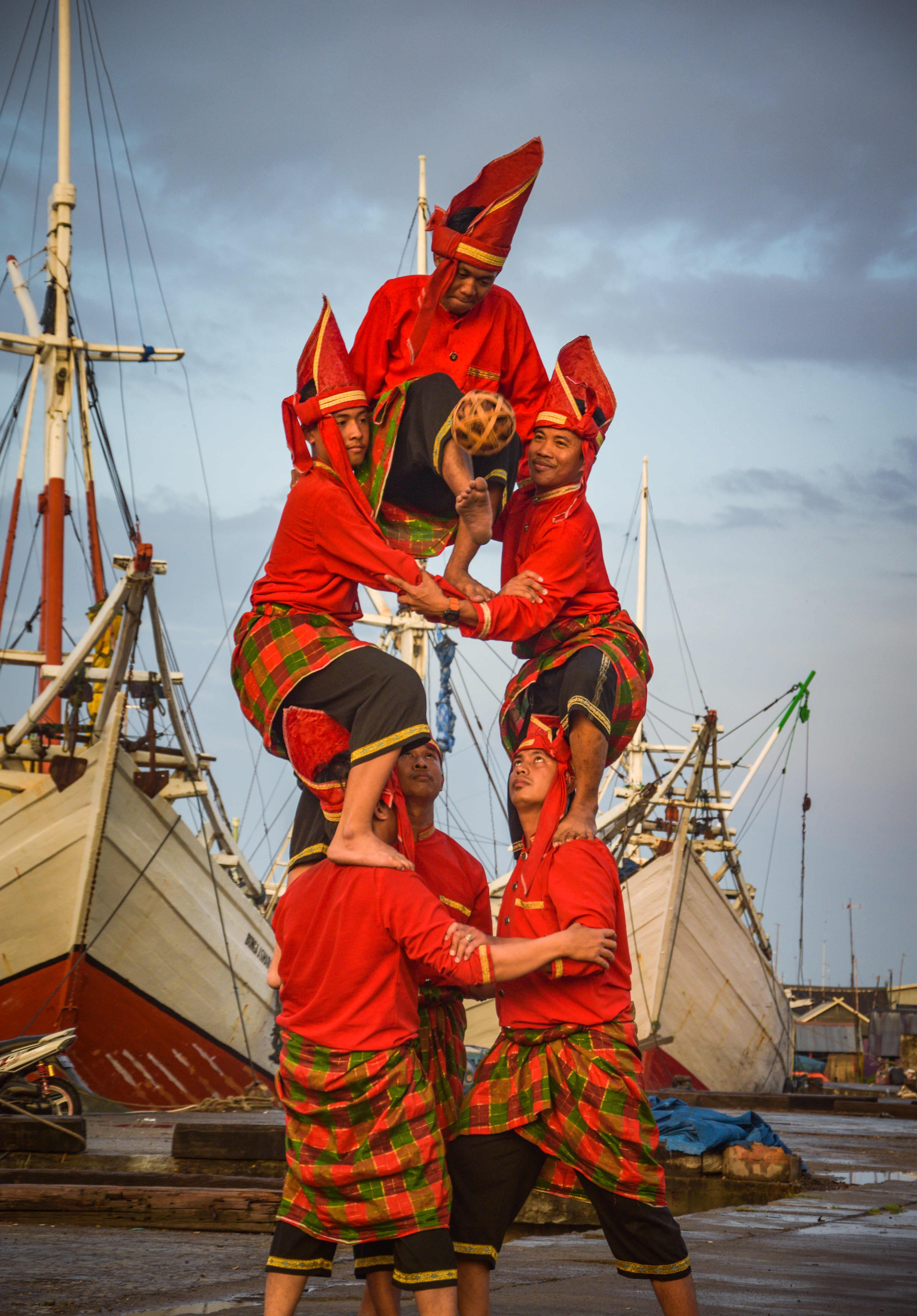 As we know, Indonesia is very famous for its diversity, one of which is like the picture above. Paraga dance is a dance originating from South Sulawesi which is played by 6 men using the Takraw ball as its main tool. According to the beliefs of the Makassar Bugis tribe, the Takraw ball is woven by using rattan up to three layers which means "ampedecengngi makkatenning ri lempu'e, nasaba puangge passabakeng" which means, "give a good guess and hold on the line, because God is all the causes".